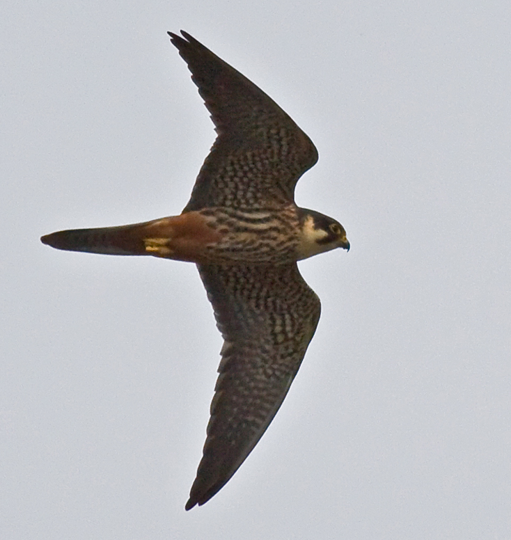 Eurasian hobby flying